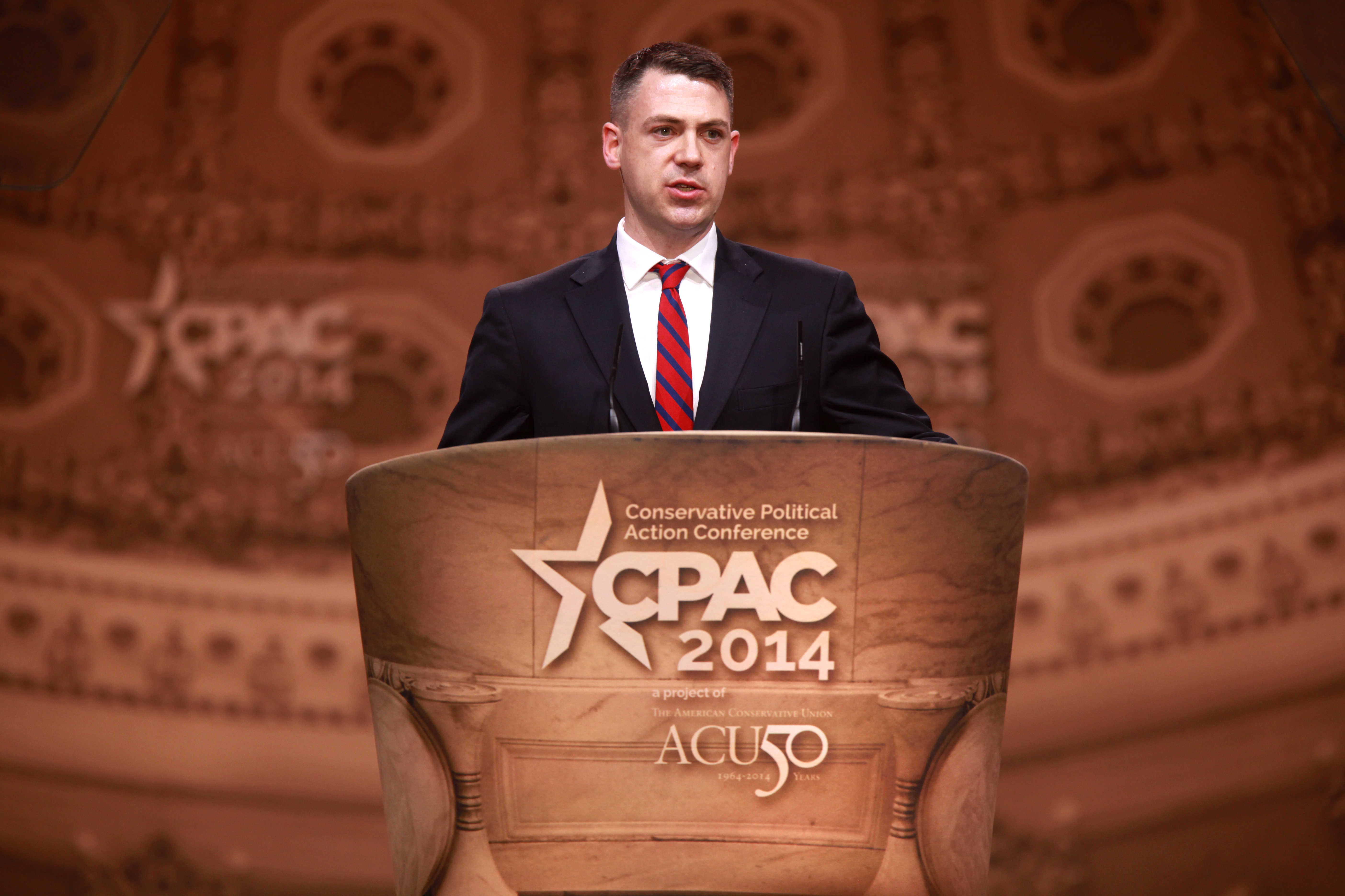 State Senator Jim Banks of Indiana speaking at the 2014 Conservative Political Action Conference (CPAC) in National Harbor, Maryland.